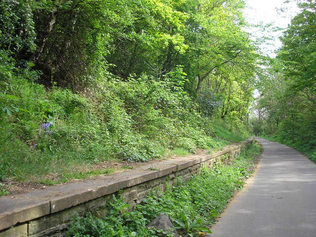 Former Craigleith Station The view of the cyclepath/walkway at the former Craigleith Station.